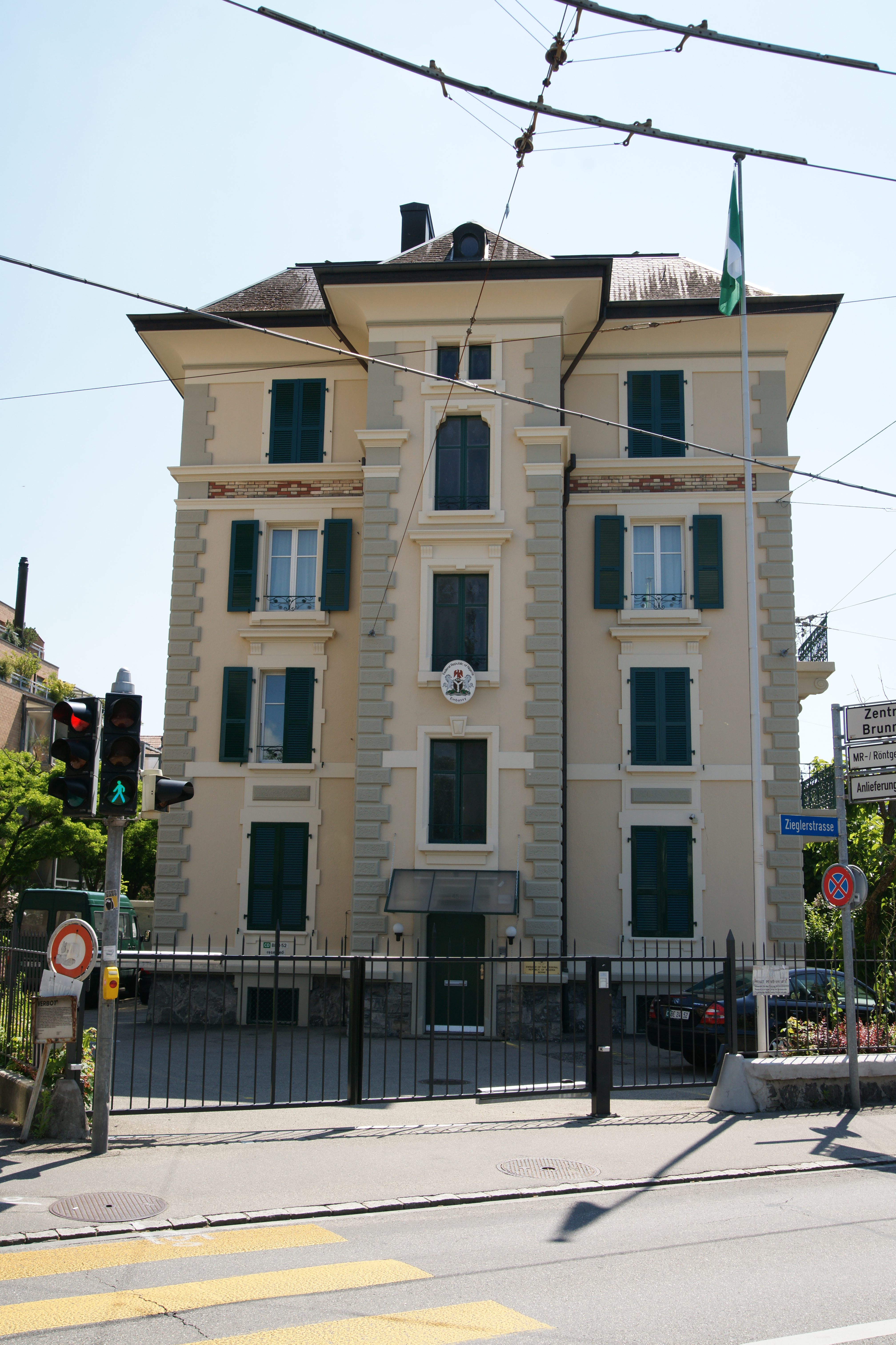 Embassy of Nigeria on Zieglerstrasse 45, Bern, Switzerland.